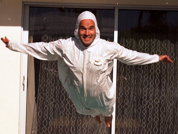 Marco Schuler, Portrait